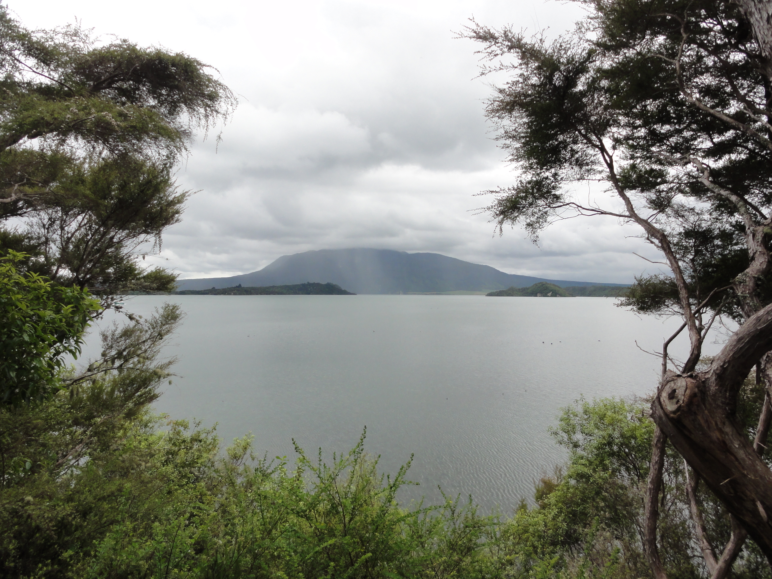 Lake Rotomahana, view from soutern End